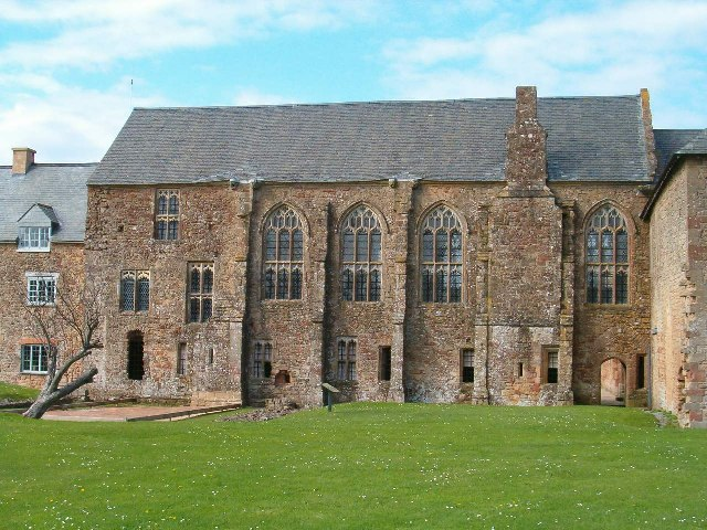 The refectory of Cleeve Abbey. The building was rebuilt in the 15th century to provide accomodation equal to that posessed by any contemporary secular lord.